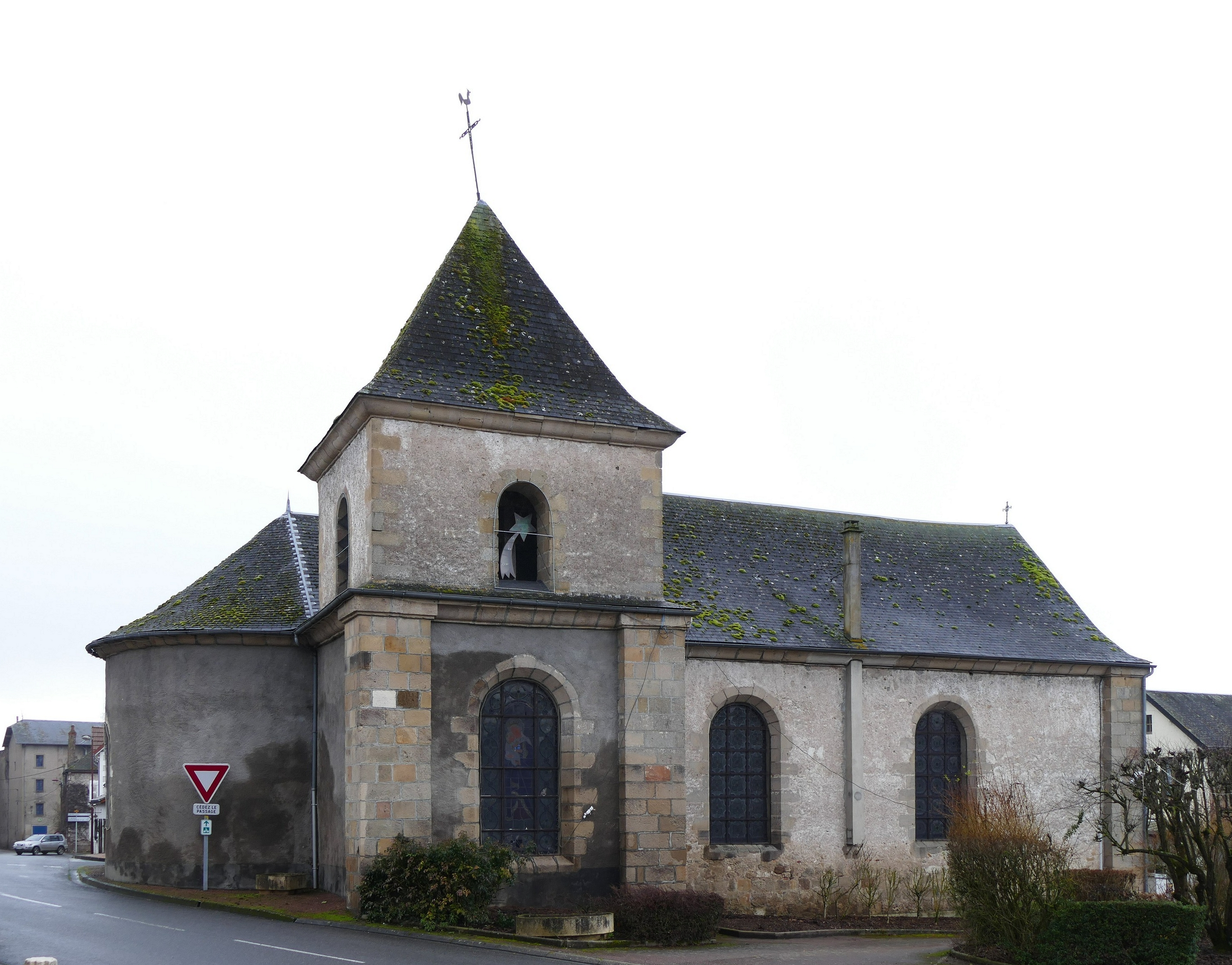 Saint-Barthélémy's church in Trézelles (Allier, Auvergne, France).